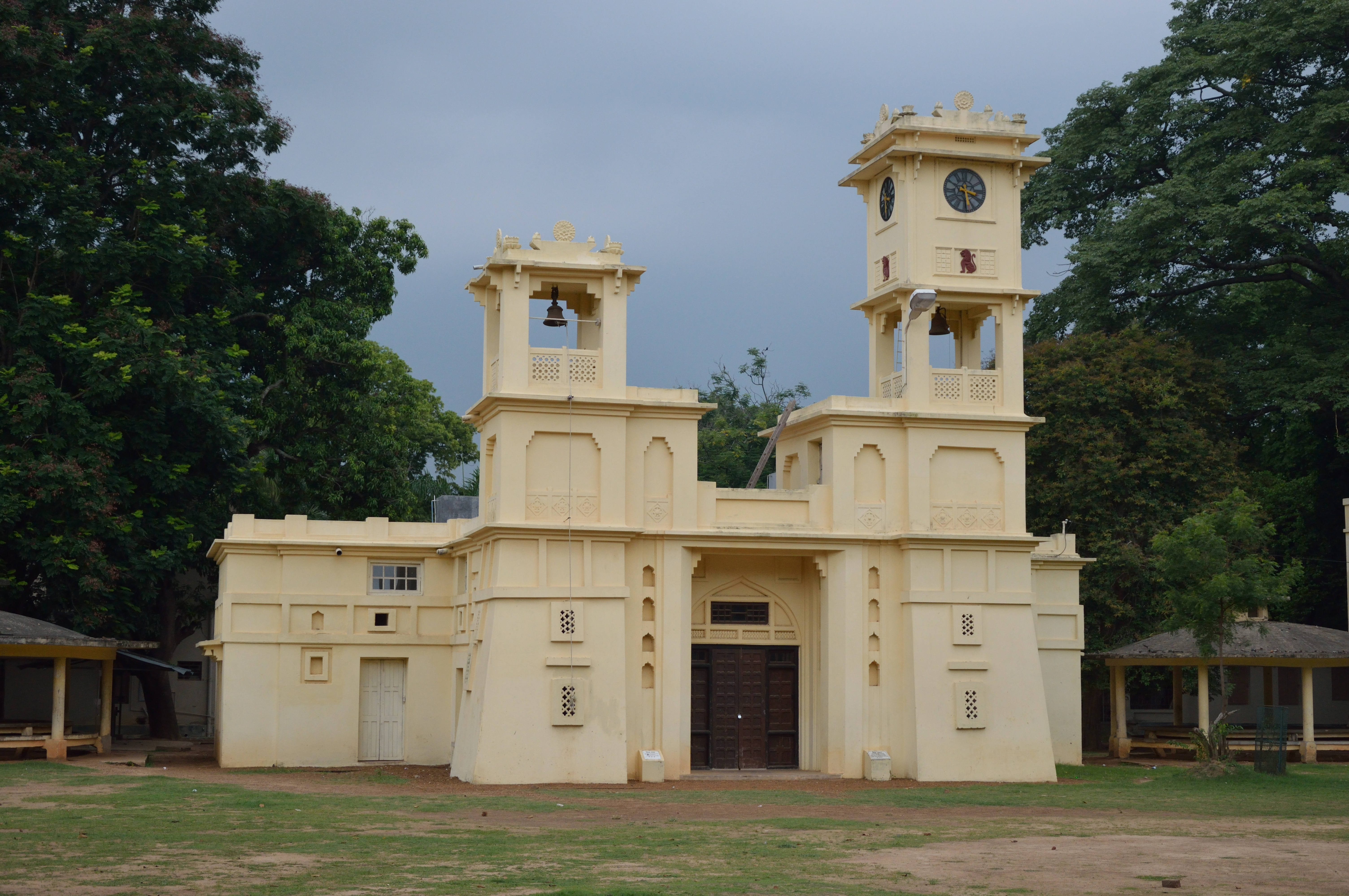 The 'Sinha Sadan’ built out of a donation by Lord Satyendra Prasanna Sinha of Raipur in 1926. Photographed at The Visva-Bharati University complex, Santiniketan.